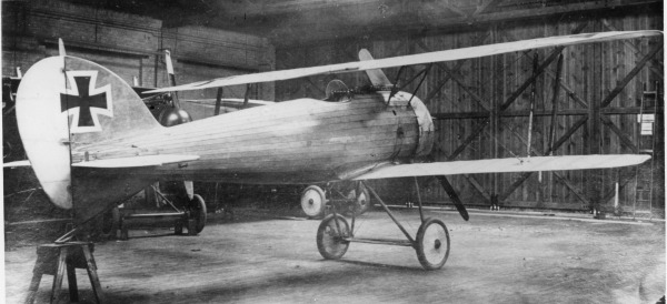 LFG Roland D.IX